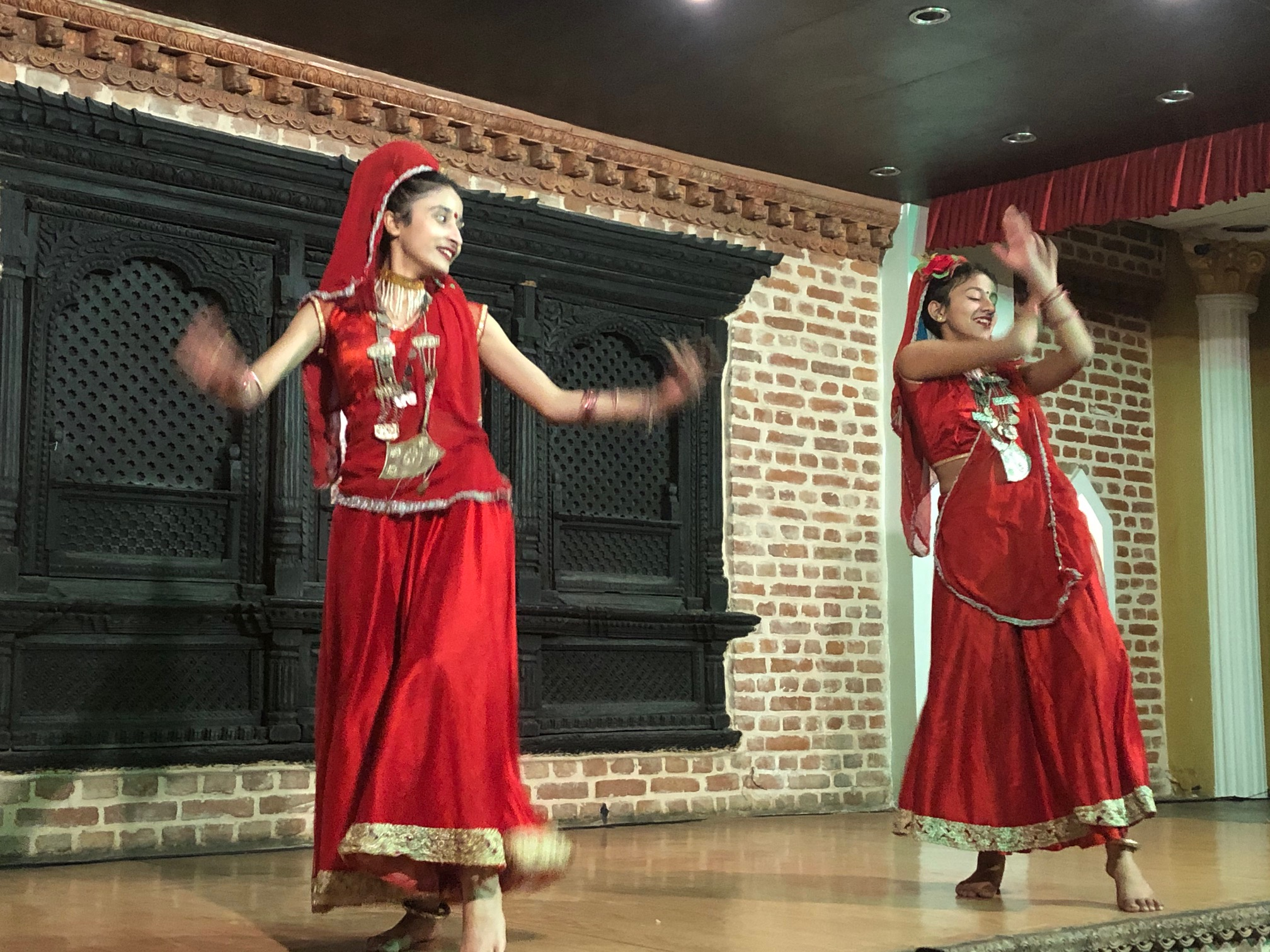 This photo has been taken in the country: Nepal